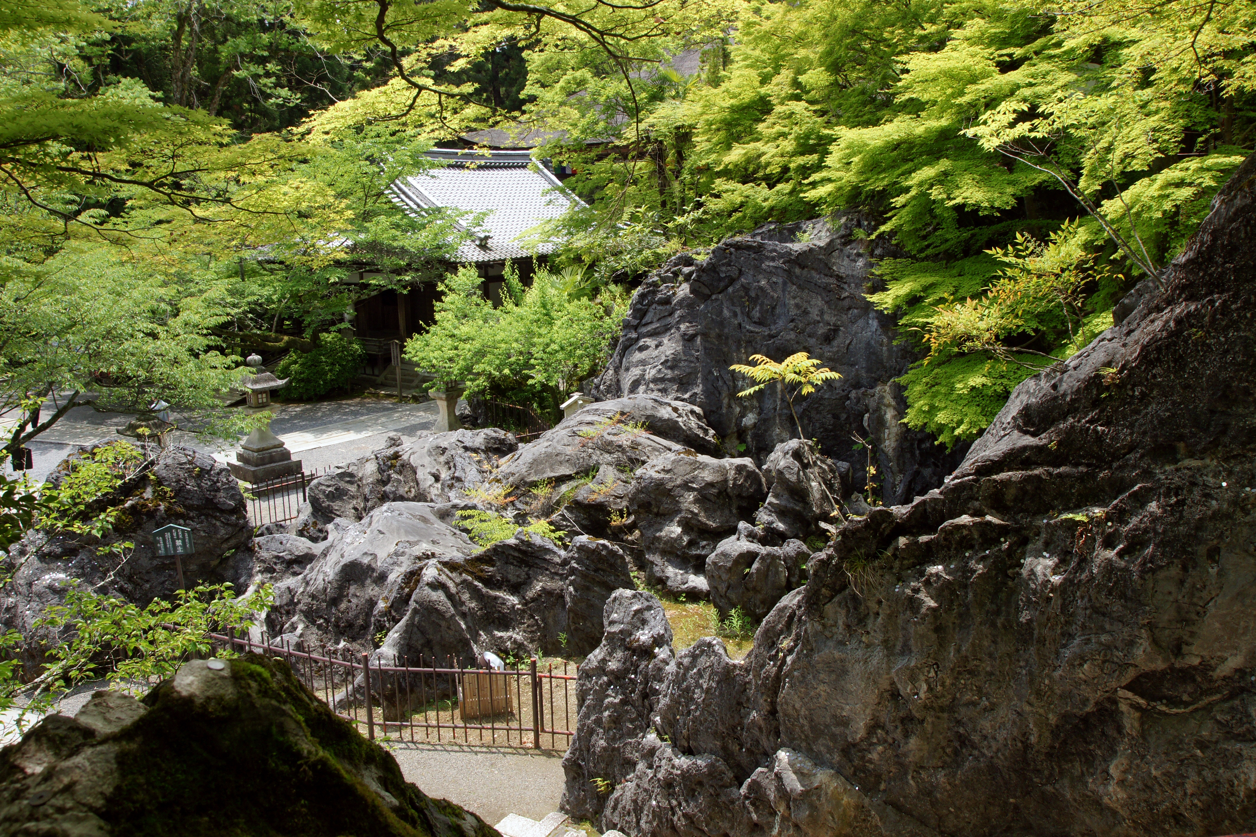 Ishiyama-dera in Otsu, Shiga prefecture, Japan